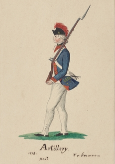 "The artillery detachments with Burgoyne had cropped their hats and coats like the infantry" (Mollo 1975, # 113).